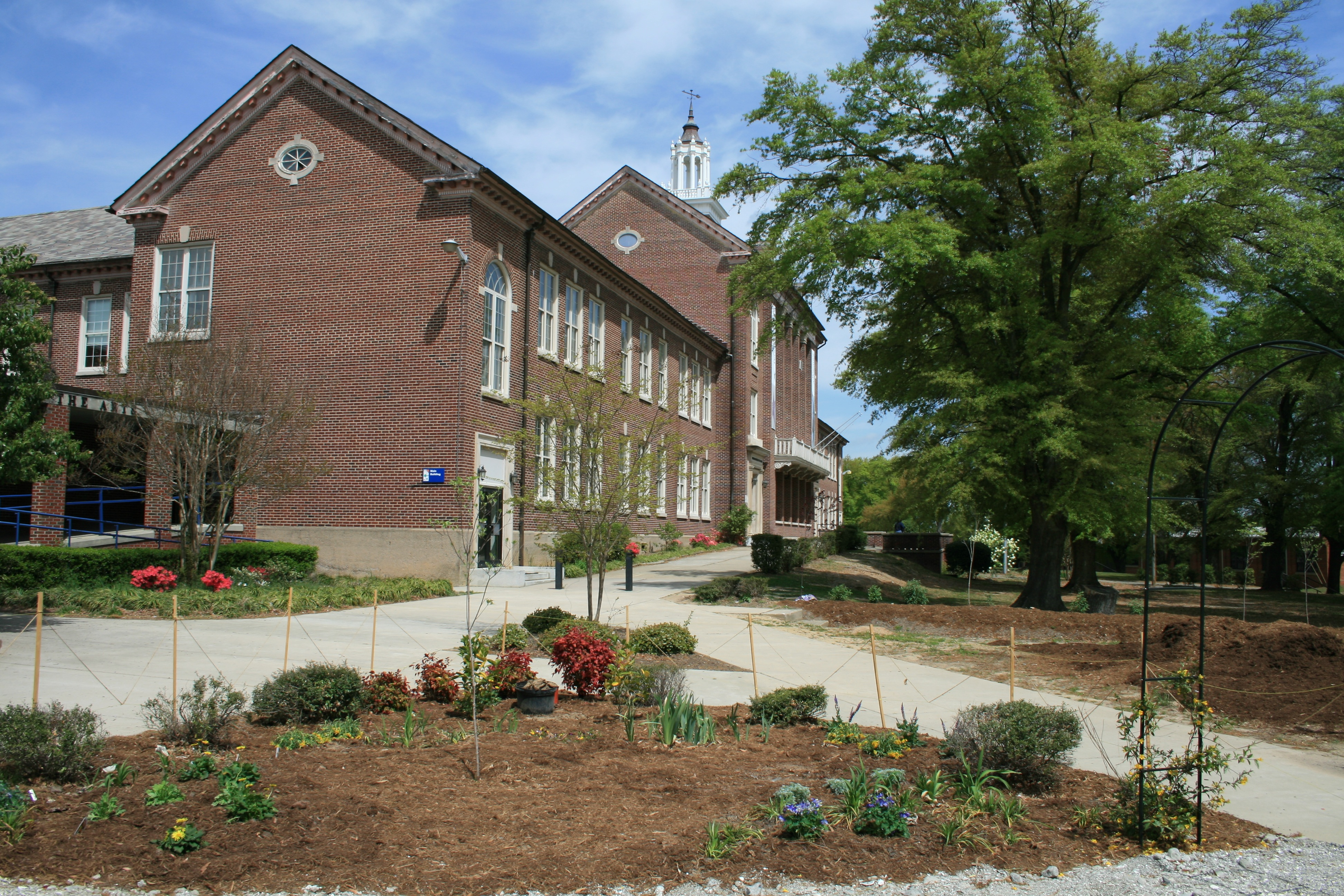 The DSA Main Building in early April. Also visible is part of the 'Big Hearted' memorial garden.